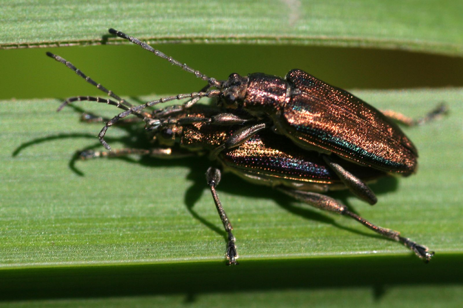 A pair of rush beetles, Donacia marginata (Chrysomelidae).